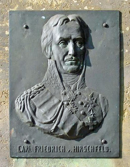 Hagelberg, old monument, built in 1848/49; plaque Prussian General Karl Friedrich von Hirschfeld. The village Hagelberg is a part of the town Belzig in the district Potsdam Mittelmark, state Brandenburg, Germany. The village appertains to the nature park Naturpark Hoher Fläming. The eponymous Hagelberg (hill) is with a height of total 200 meters the highest elevation in the Fläming. There are two monuments commemorating to the prussian victory in the „Battle nearby Hagelberg“ in 1813 against Napoleon.